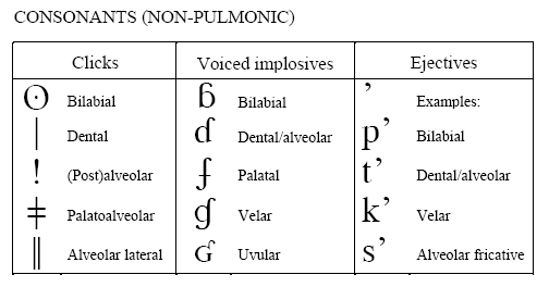 International Phonetic Alphabet non-pulmonic consonants chart (2005)